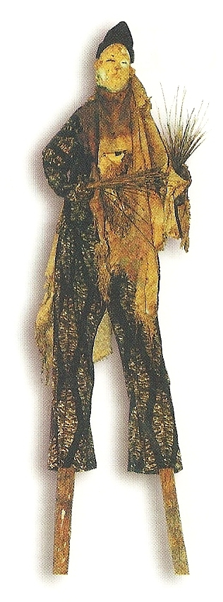 Bodi gabonese traditionnal mask from the Bapunu ethny